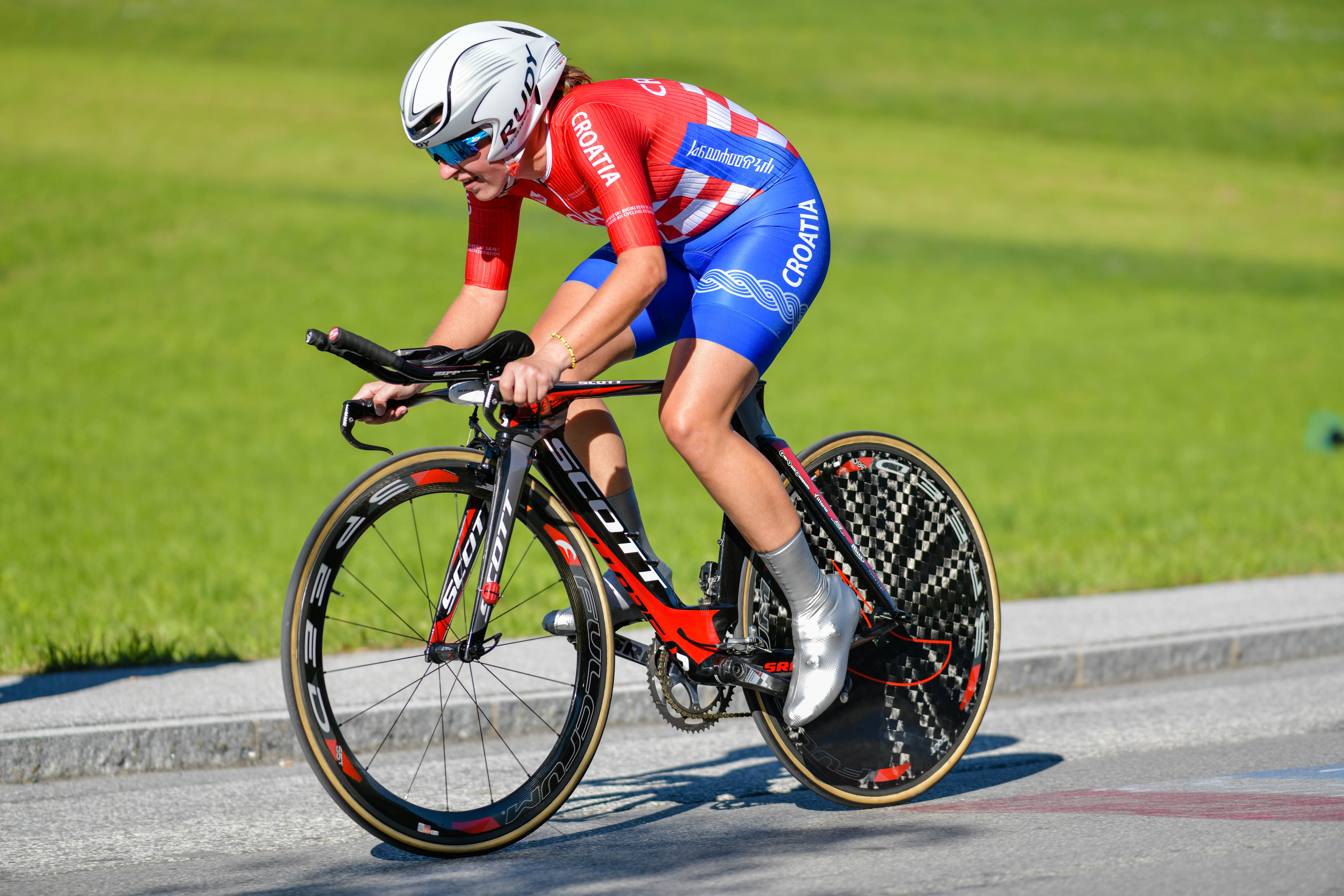 2018 UCI Road World Championships Innsbruck/Tirol Women Elite Individual Time Trial. Picture shows: Mia Radotic of Croatia